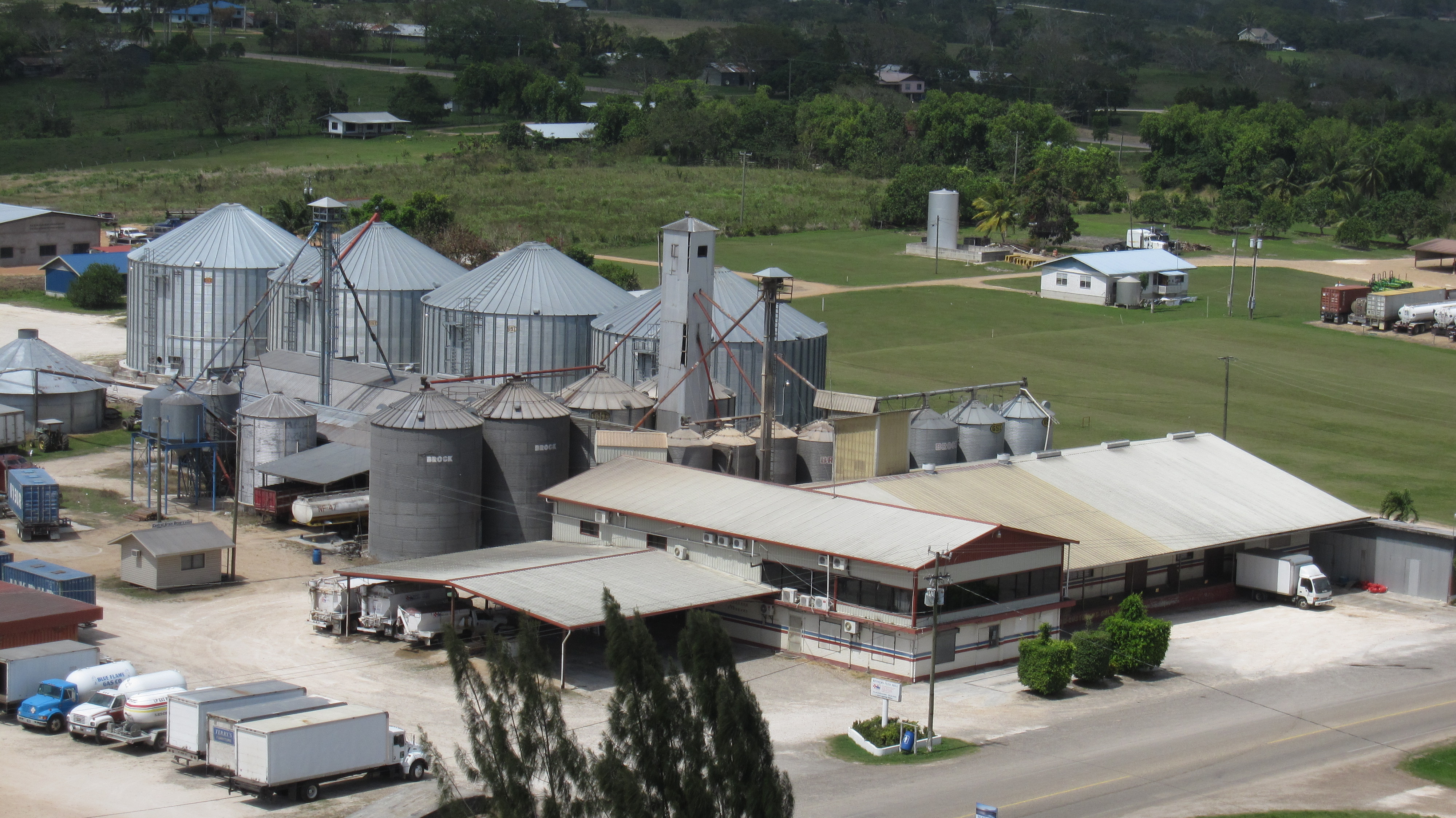 Reimer's Feed Mill